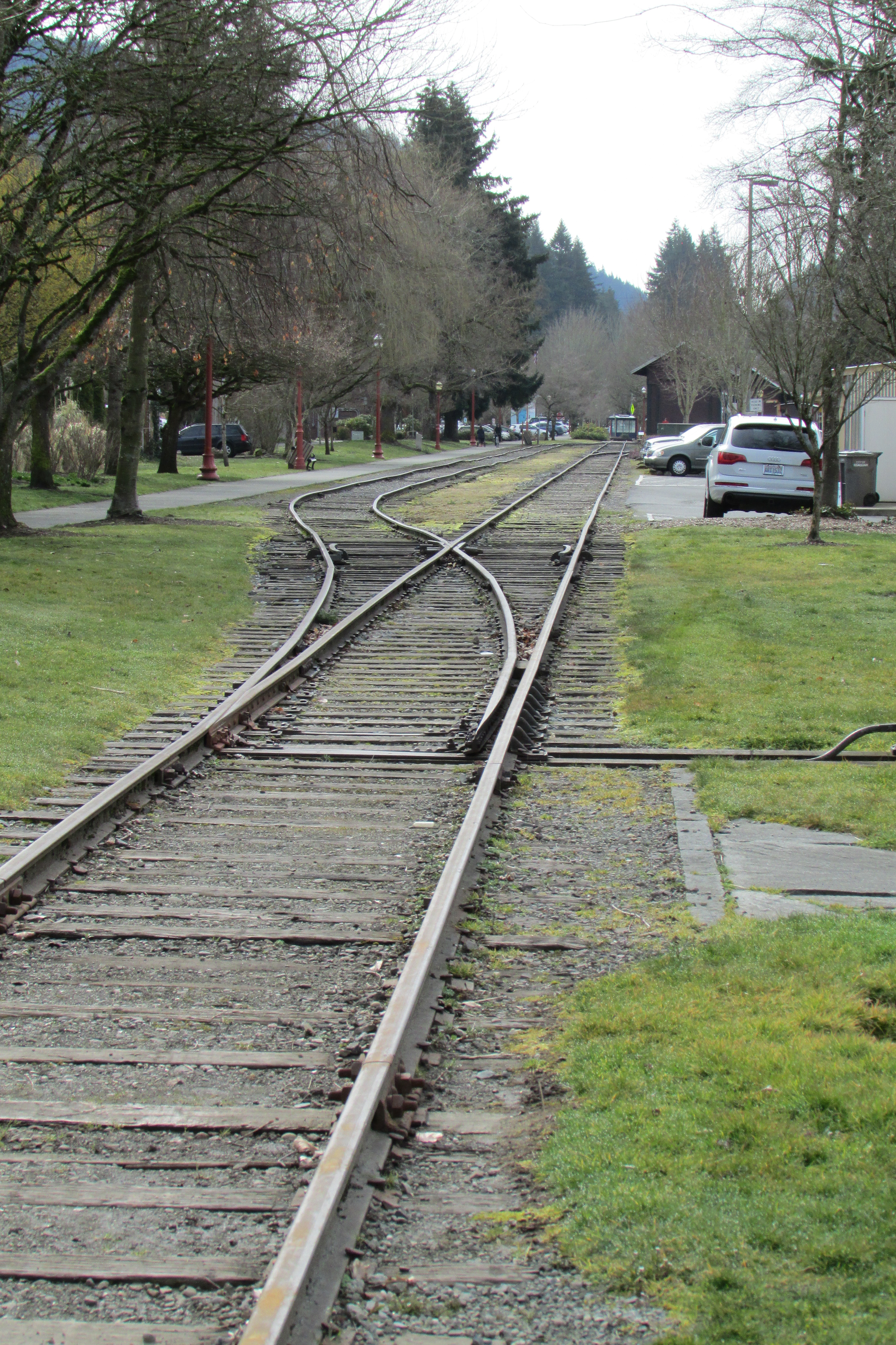 Rail line at the Issaquah Depot, Issaquah, Washington.